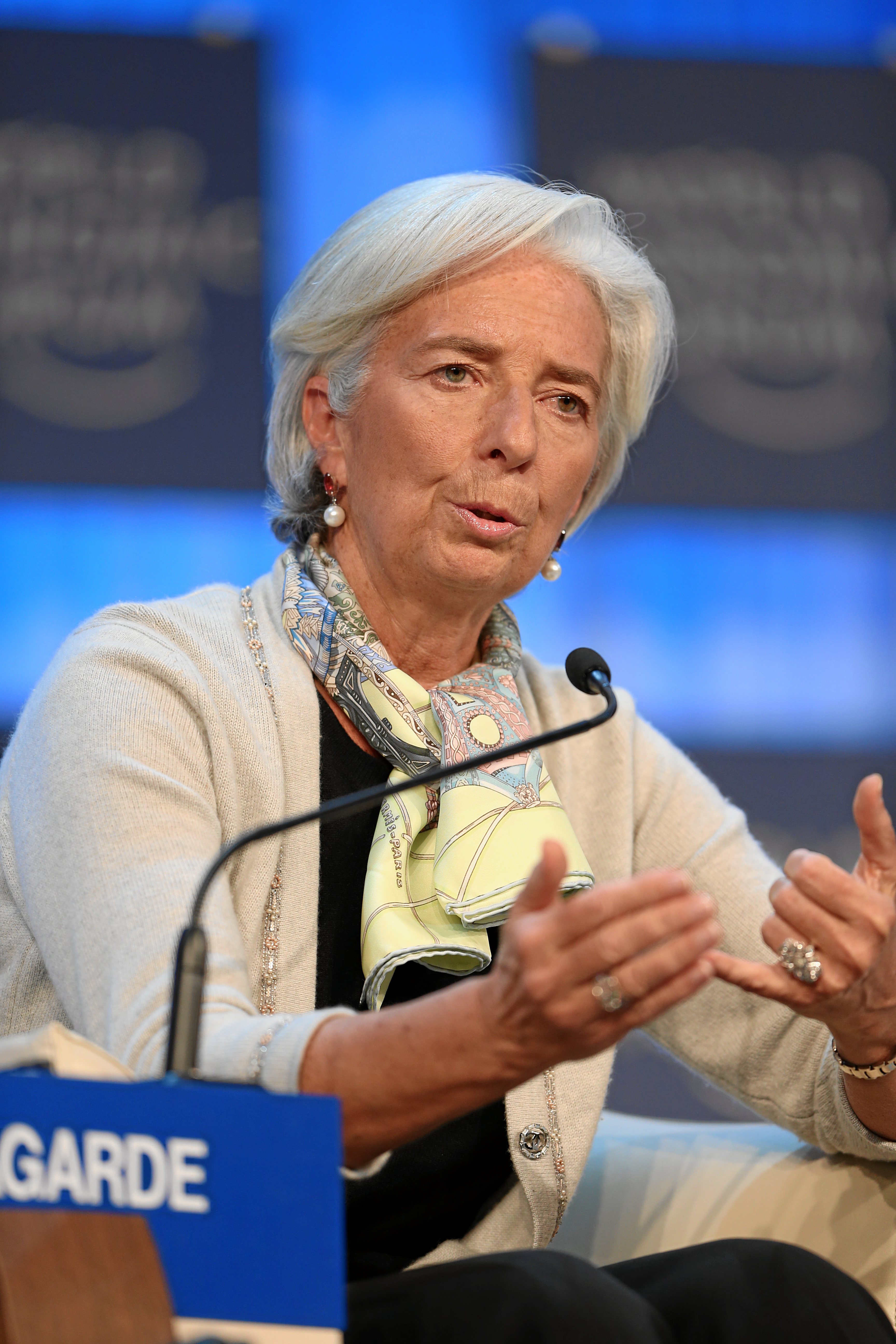 DAVOS/SWITZERLAND, 26JAN13 - Christine Lagarde, Managing Director, International Monetary Fund (IMF), Washington DC; World Economic Forum Foundation Board Member is seen during the Session 'The Global Economic Outlook' at the Annual Meeting 2013 of the World Economic Forum in Davos, Switzerland, January 26, 2013.. . Copyright by World Economic Forum. . Moritz Hager